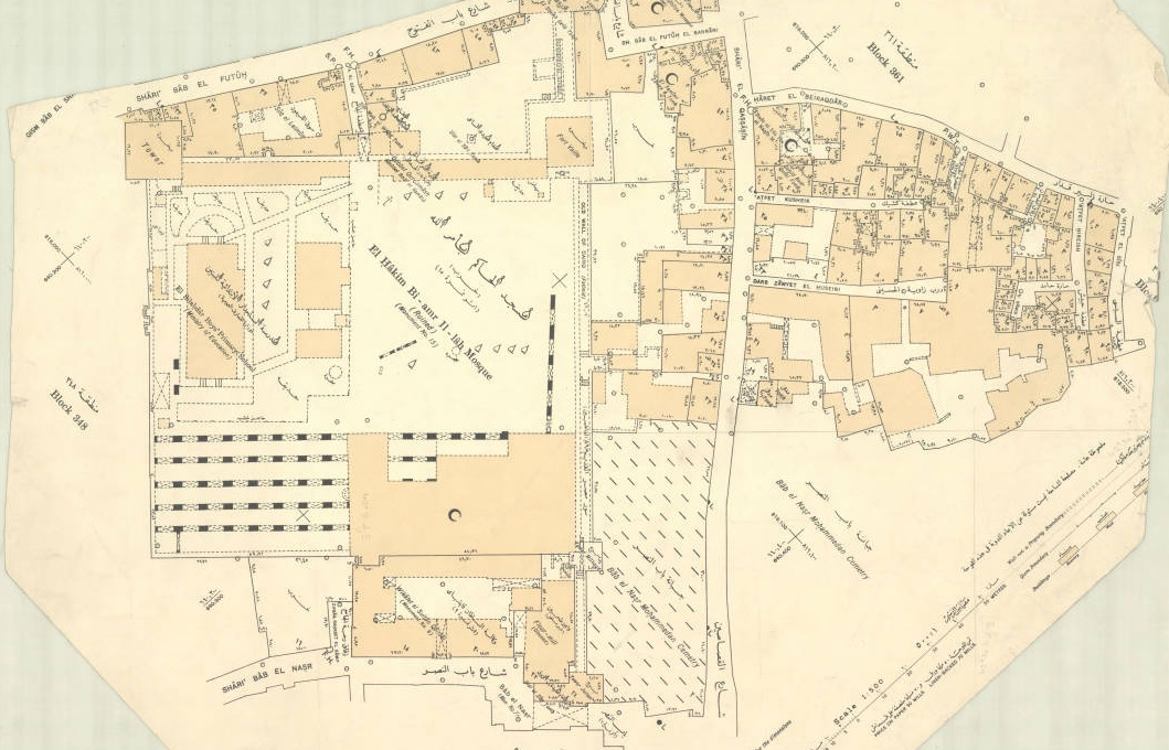 Map of the Mosque of Al Hakim from the Survey of Egypt.